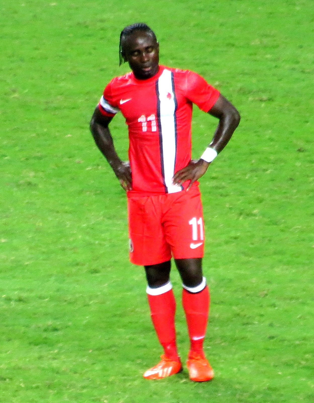 Godfred Karikari playing for Hong Kong national football team against UAE on 15 October 2013. 中文（香港）: 高梵為香港足球代表隊出戰阿拉伯聯合酋長國足球隊，2013年10月15日。